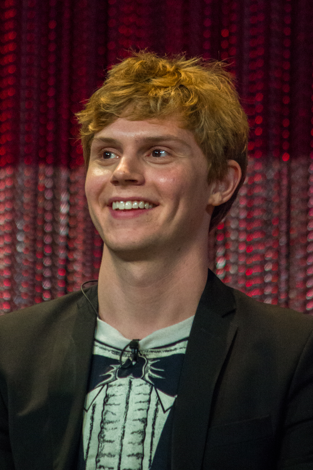 Evan Peters at PaleyFest 2014 for the TV show "American Horror Story: Coven"